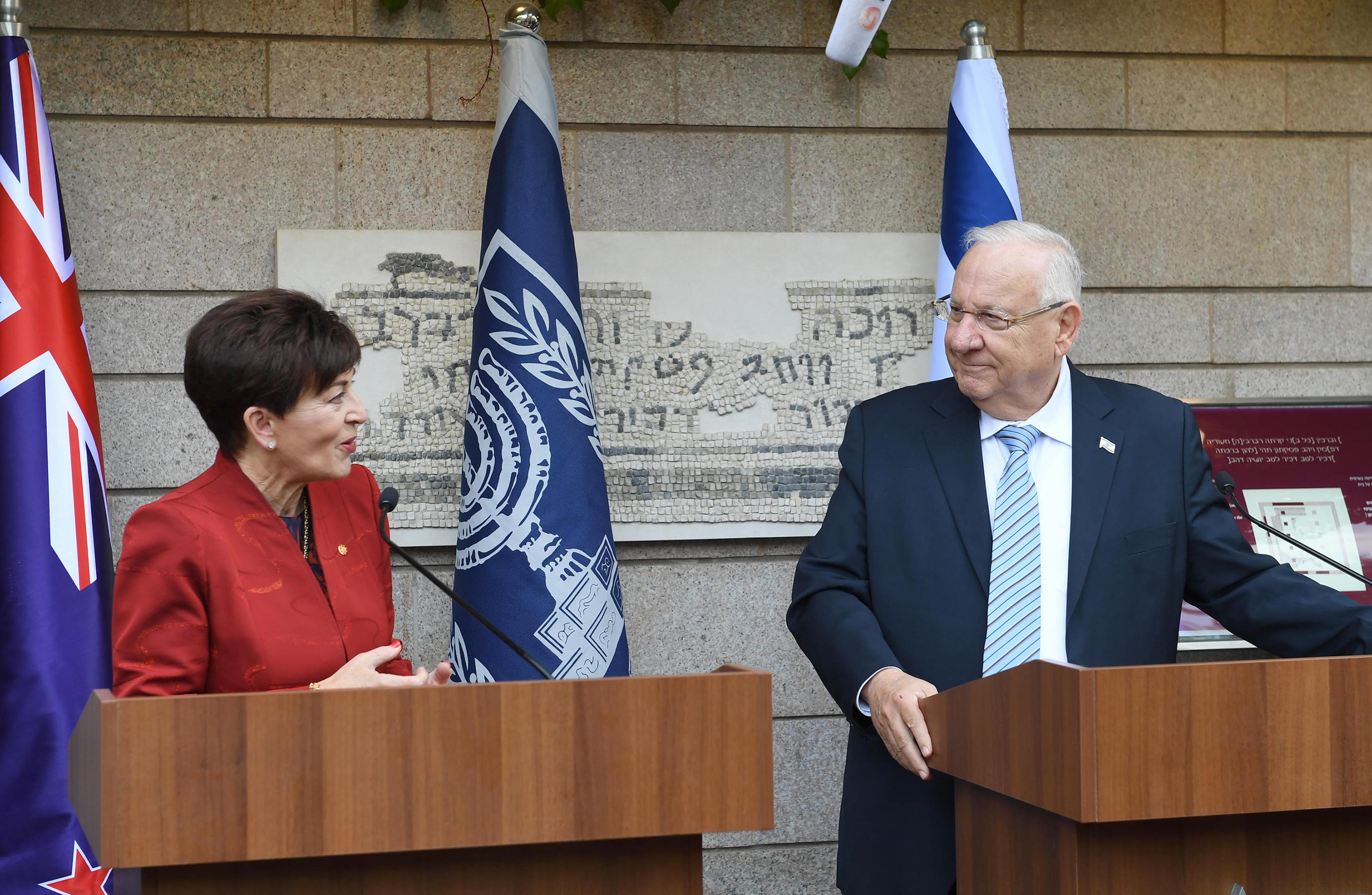 President of the State of Israel, Reuven Rivlin, and his wife, Nechama, host the New Zealand Governor General who visits Israel as part of the events commemorating the 100th anniversary of the liberation of Beersheba by the ANZAC forces on Monday, October 30, 2017. Photo credit: Mark Neyman / GPO.